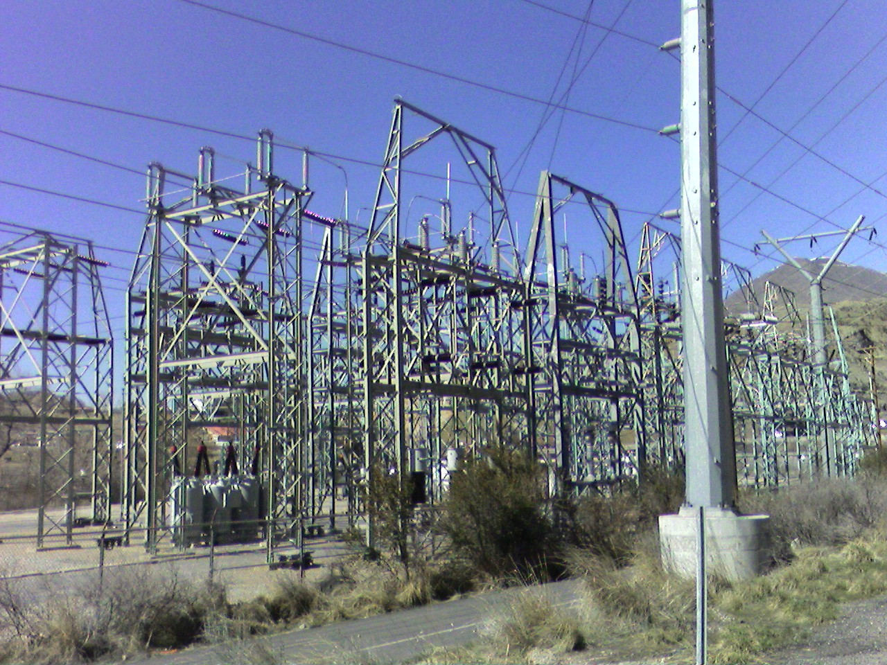 A transmission substation on the electrical grid.